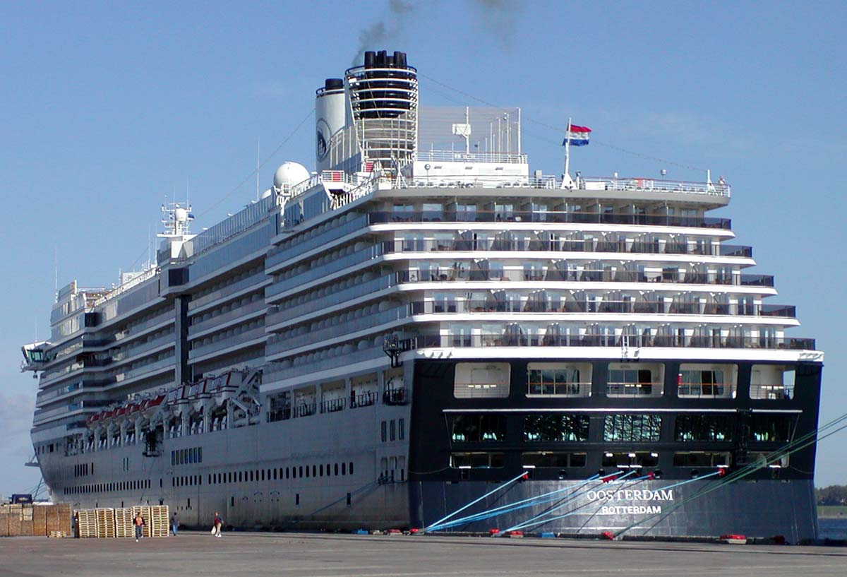 Photo of Oosterdam at Tallinn